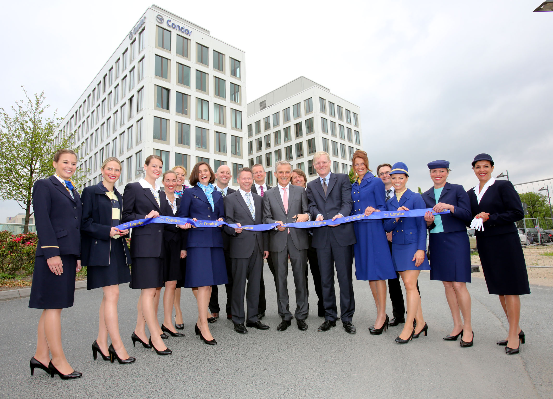 The celebration of the Condor head office grand opening, attended by flight attendants, the media, and guests.